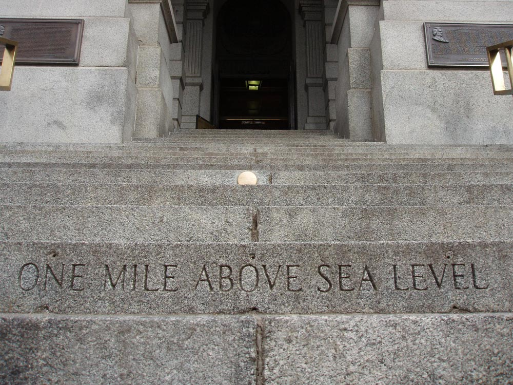 Steps at the Colorado State Capitol, Denver, CO